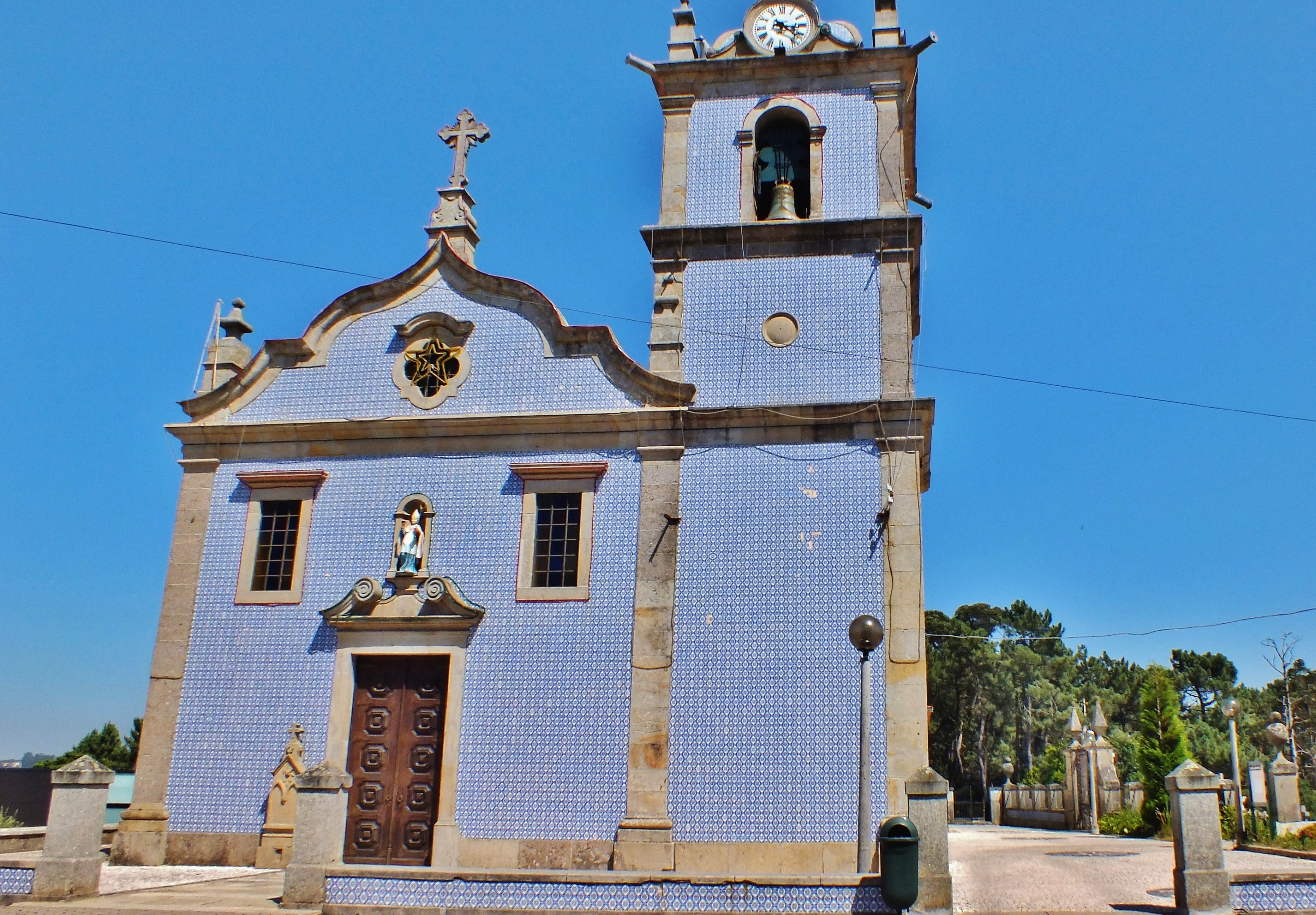 Church of Saint Martin, Argoncilhe - Santa Maria da Feira.